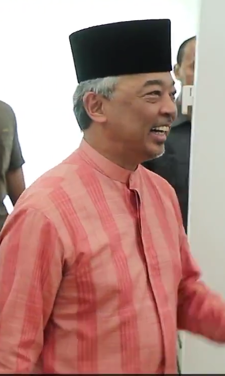 Picture of Al-Sultan Abdullah of Pahang